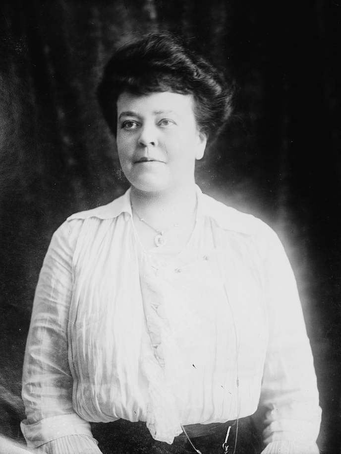 Mrs. O.H.P. Belmont